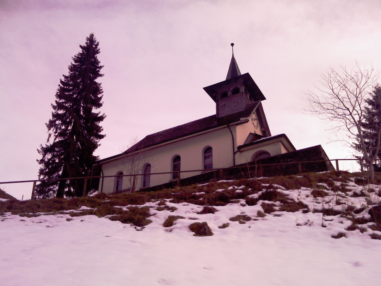 Sangernboden Church, Municipalitiy of Guggisberg, Canton of Berne, SwitzerlandEsperanto: Sangernboden preĝejo, Komunumo de Guggisberg, Kantono Berno, Svislando